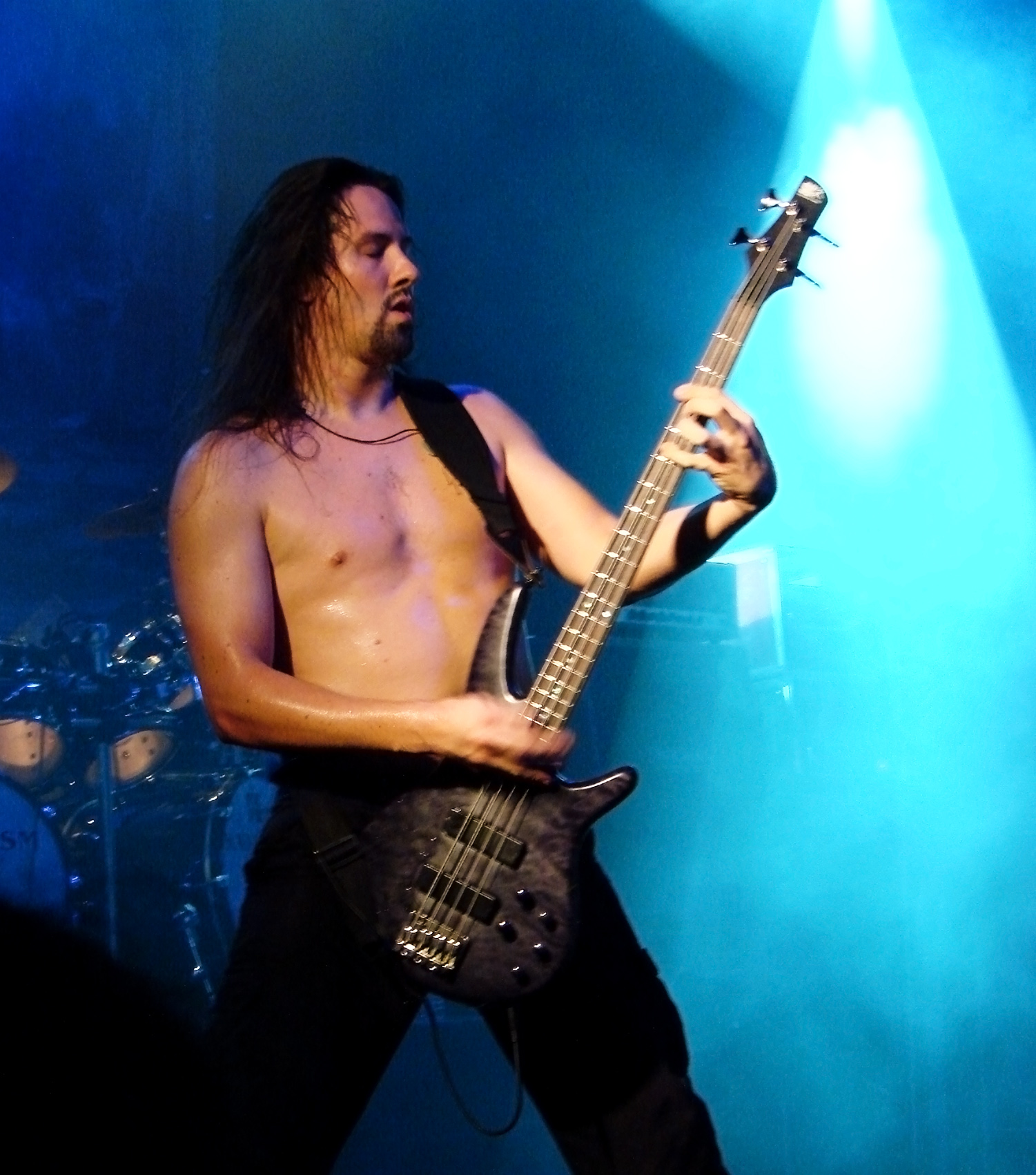 Kataklysm, a Canadian death metal band, during their concert in Strasbourg (France). 06/10/07.